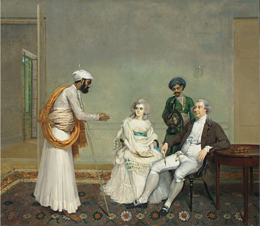 Suetonius Grant Heatly (1751-1793) and his sister, Temperance, with their Indian servants in an interior in Calcutta. Painted by Arthur William Devis, Calcutta c. 1786.